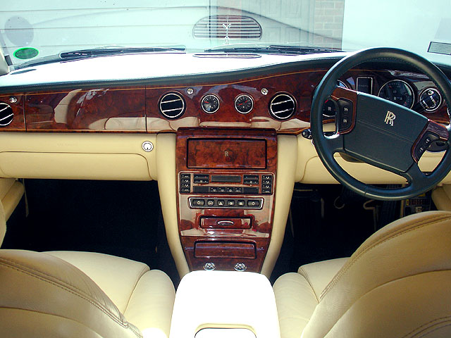 Author: ThwartedEfforts